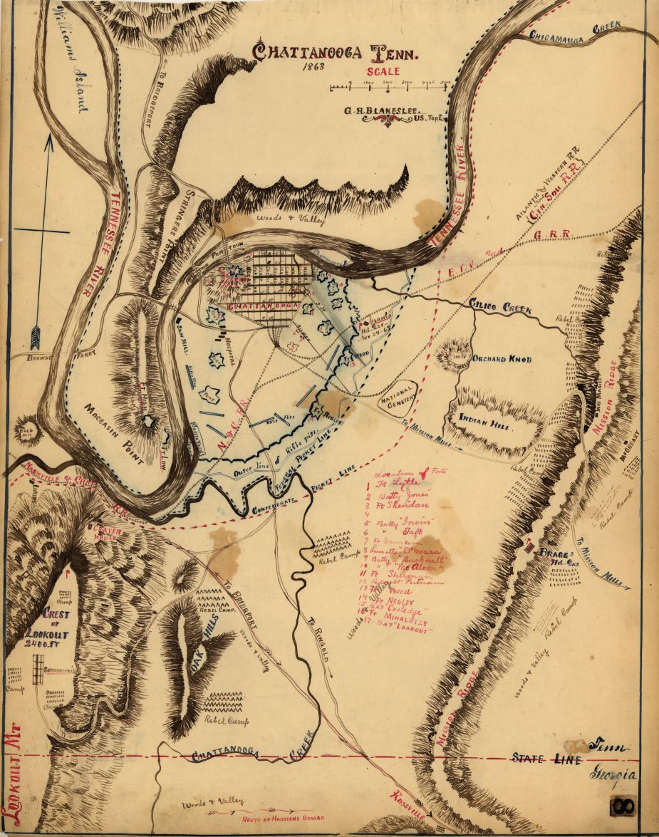 Map of Chattanooga during the civil war campaign of 1863